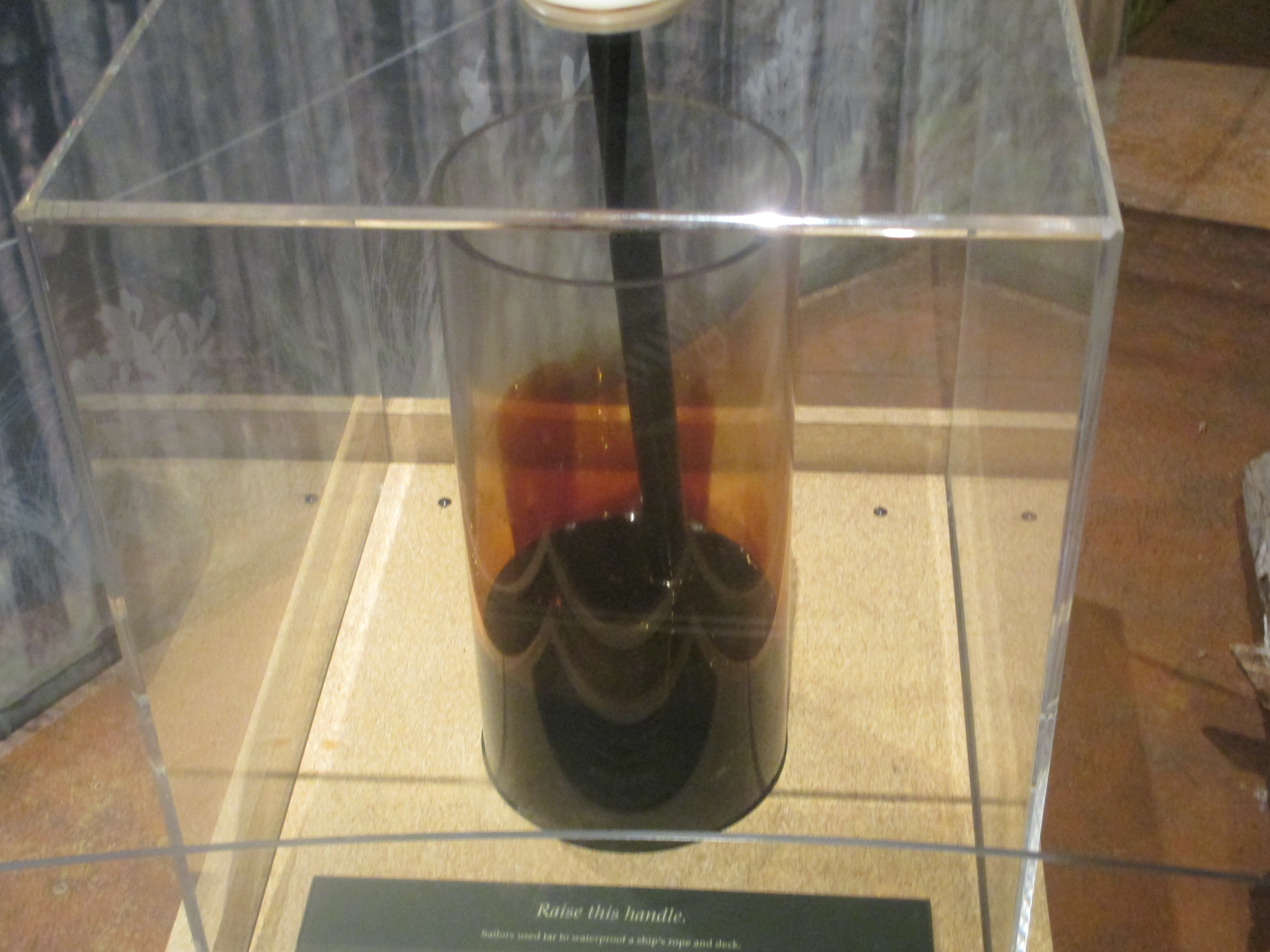 Tar exhibit — at the Cape Fear Museum in Wilmington, North Carolina. Credits I took photo with Canon camera.